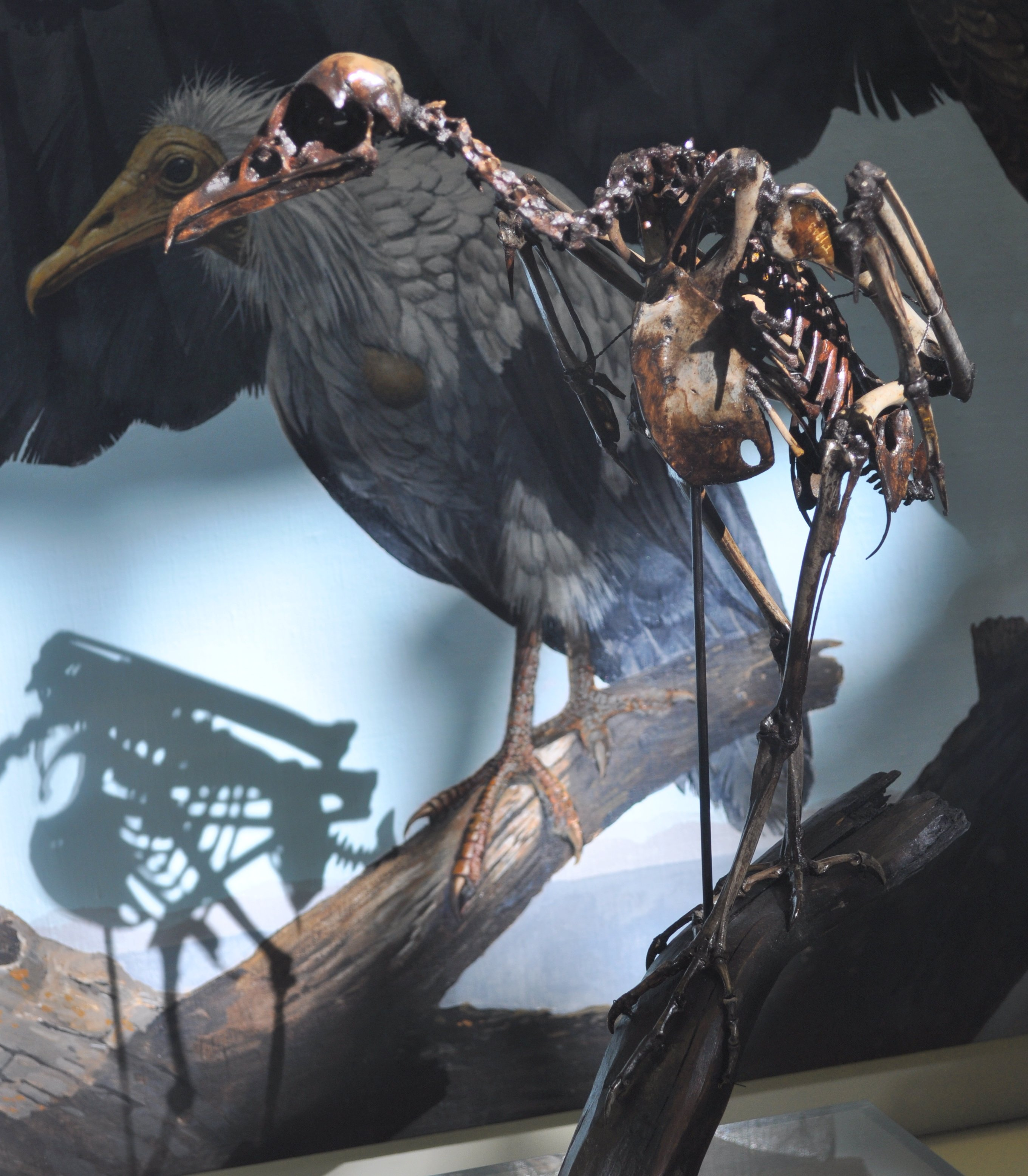 Crop of file in filename